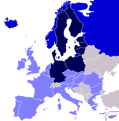 Council of the Baltic Sea States Member states